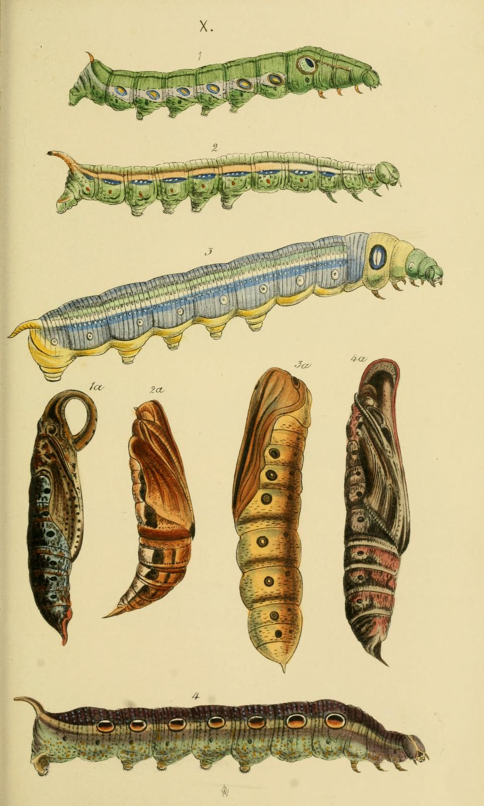 Thomas Horsfield and Frederic Moore. A catalogue of the lepidopterous insects in the Museum of the Hon. East-India Company. Alternative Title:Catalogue of the lepidopterous insects in the Museum of Natural History at the East-India House. Multiple dates 1857 - 1859; 1857-1859. Plate X text figure 1 Pergesa acteus (Cramer, 1779) 1 larva, 1a pupa figure 2 Darapsa hypothous synonym for Daphnis hypothous(Cramer, 1780) 2 larva, 2a pupa figure 3 Daphnis nerii (Linnaeus, 1758) 3 larva, 3a pupa figure 4 Chaerocampa alecto synonym for Theretra alecto (Linnaeus, 1758) 4 larva, 4a pupa